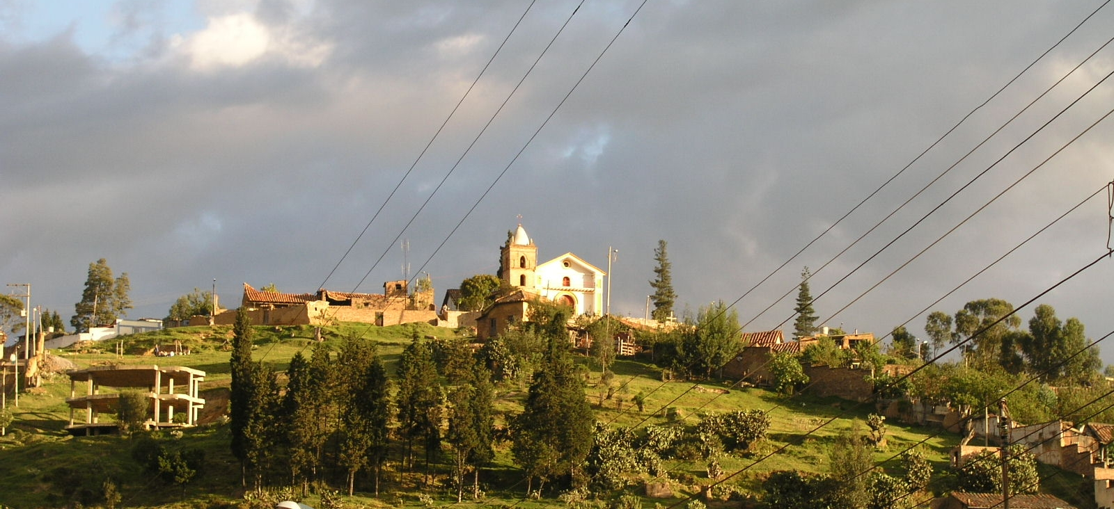 Hill and church of Santa Barbara in Sogamoso, Colombia. Taken in december 2004 by Manuel Arturo Izquierdo